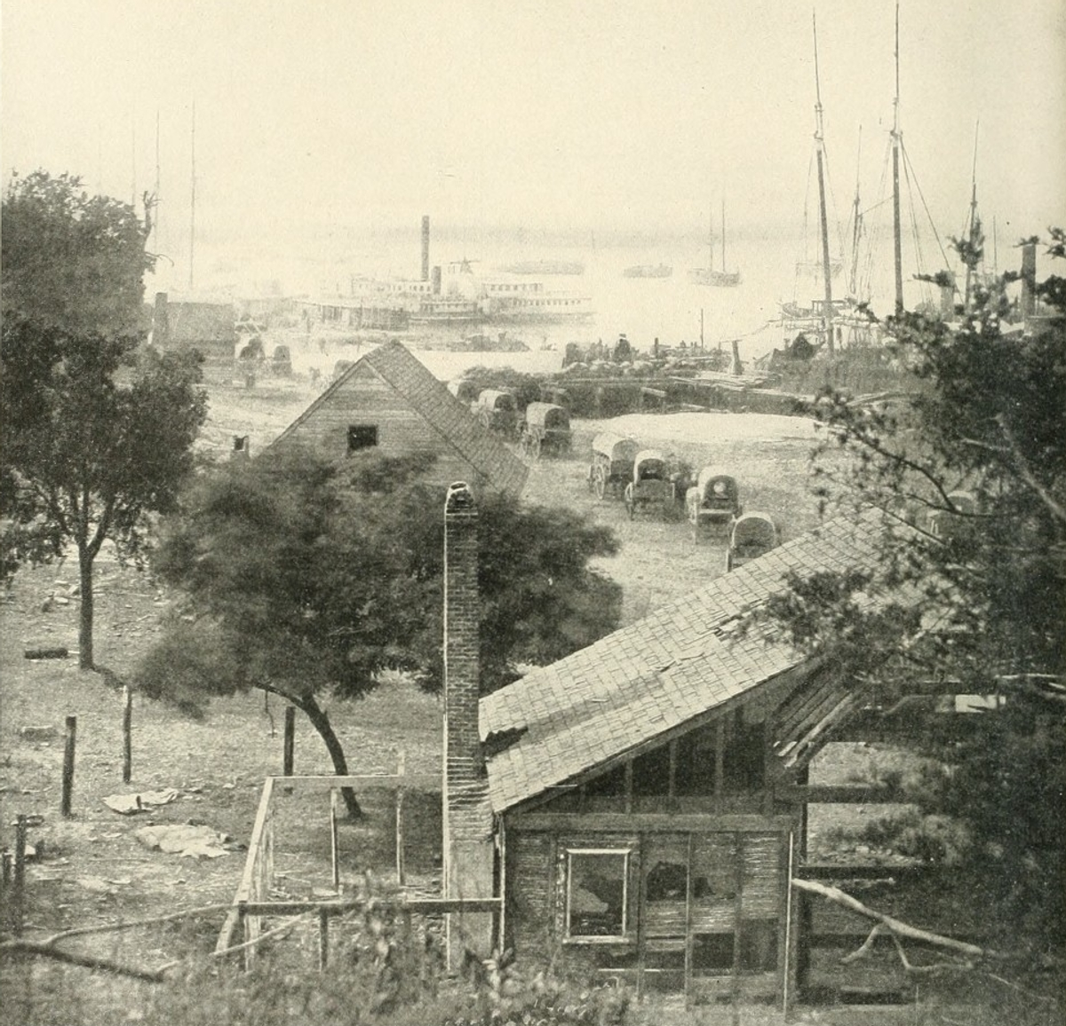 City Point at the juncture of the Appomattox and James Rivers after its capture by General Benjamin Butler. This served as the primary logistics point for the Union army during its siege of Petersburg and Richmond from June 1864